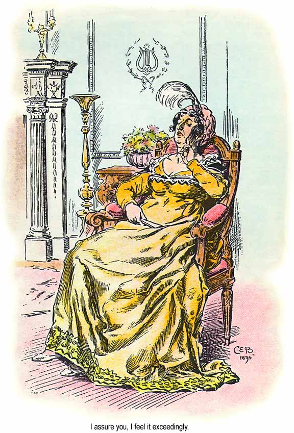 C. E. Brock illustration for the 1895 edition of Jane Austen's novel Pride and Prejudice (Chapter 37)